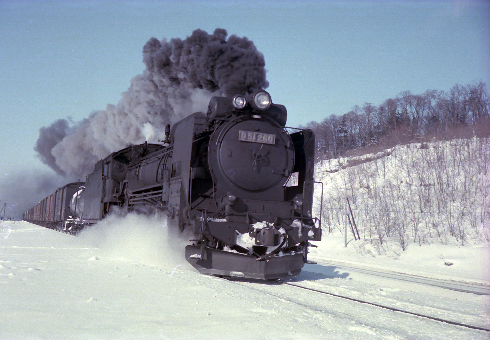 D51 260 pulling the freight cars on the Muroran Main Line, Hokkaidō, ca.1974.